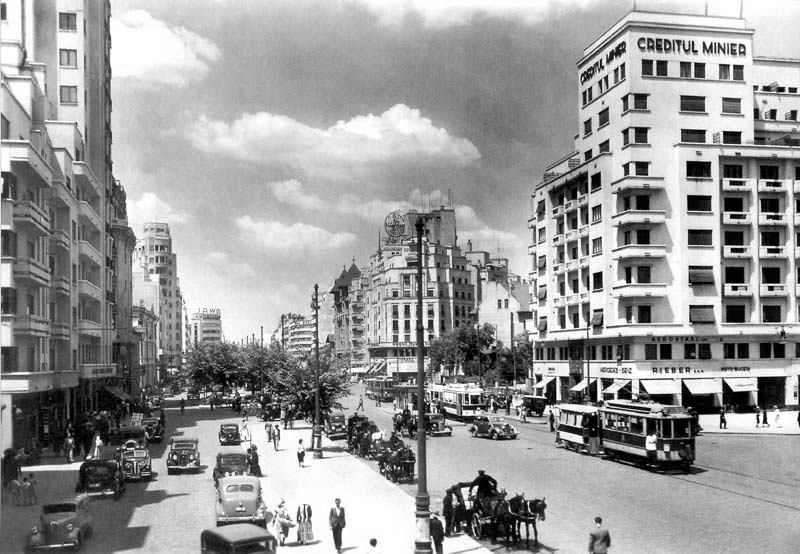 Boulevards Bratianu & Magheru, Bucharest, late 1930s.